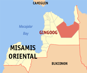 Map of the Misamis Oriental showing the location of Gingoog